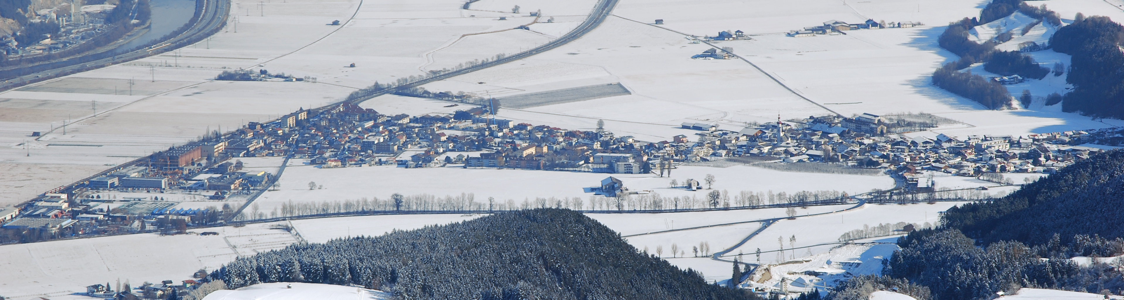 Kematen from West